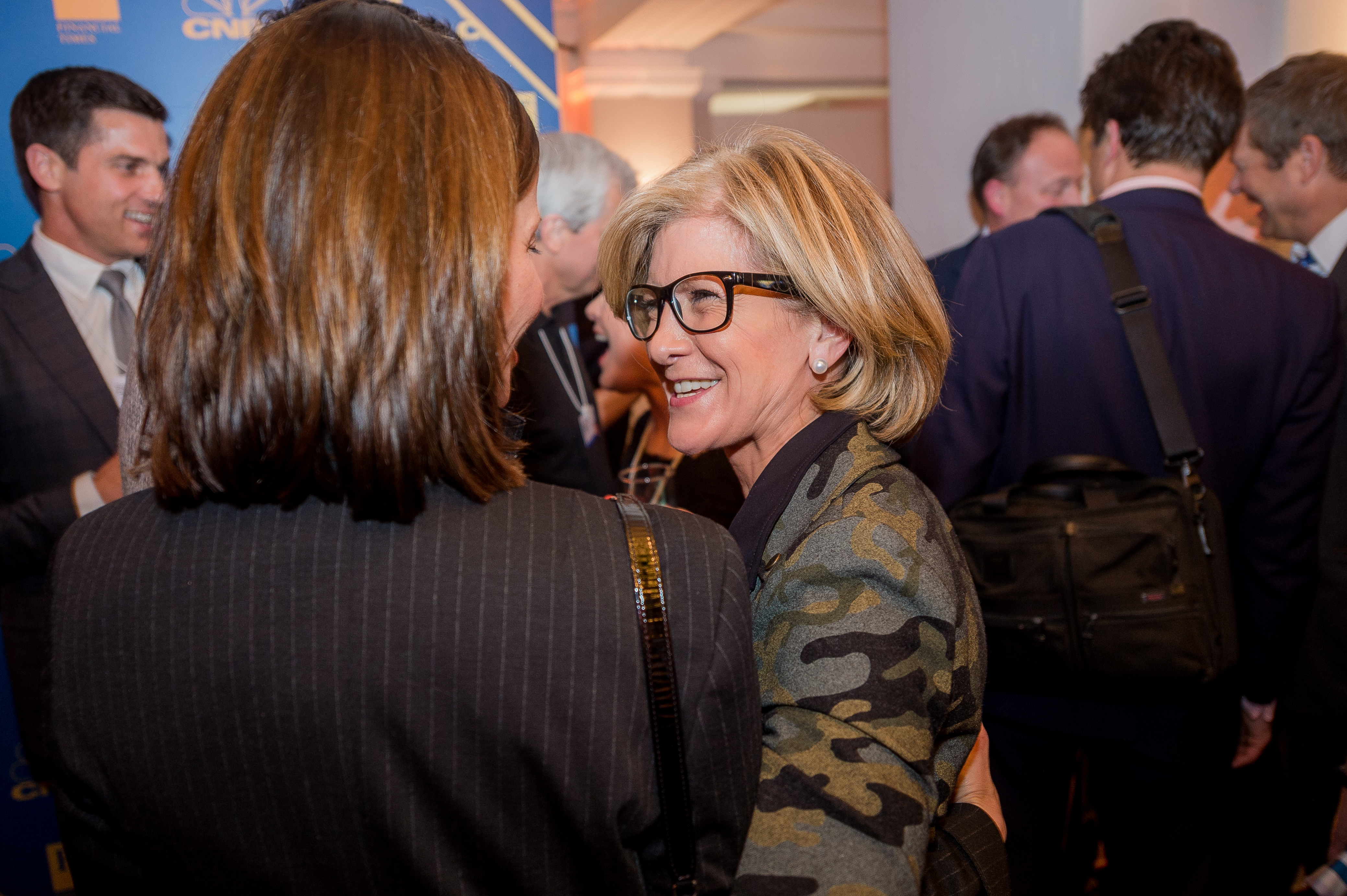 Mary Callahan Erdoes, CEO, J.P.Morgan Asset Managment